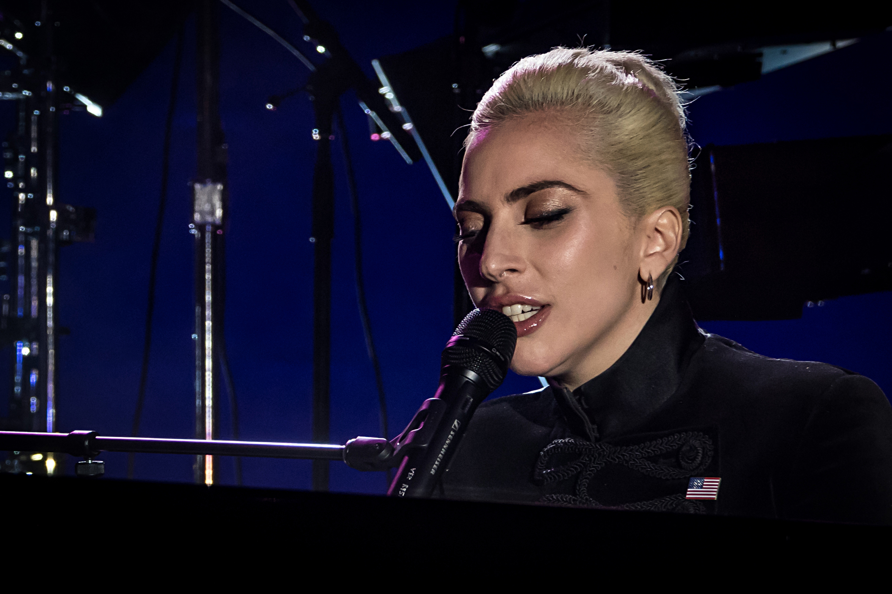 Lady Gaga performing live at the Airbnb Open Spotlight concert in downtown Los Angeles, California, on Saturday, November 19, 2016.